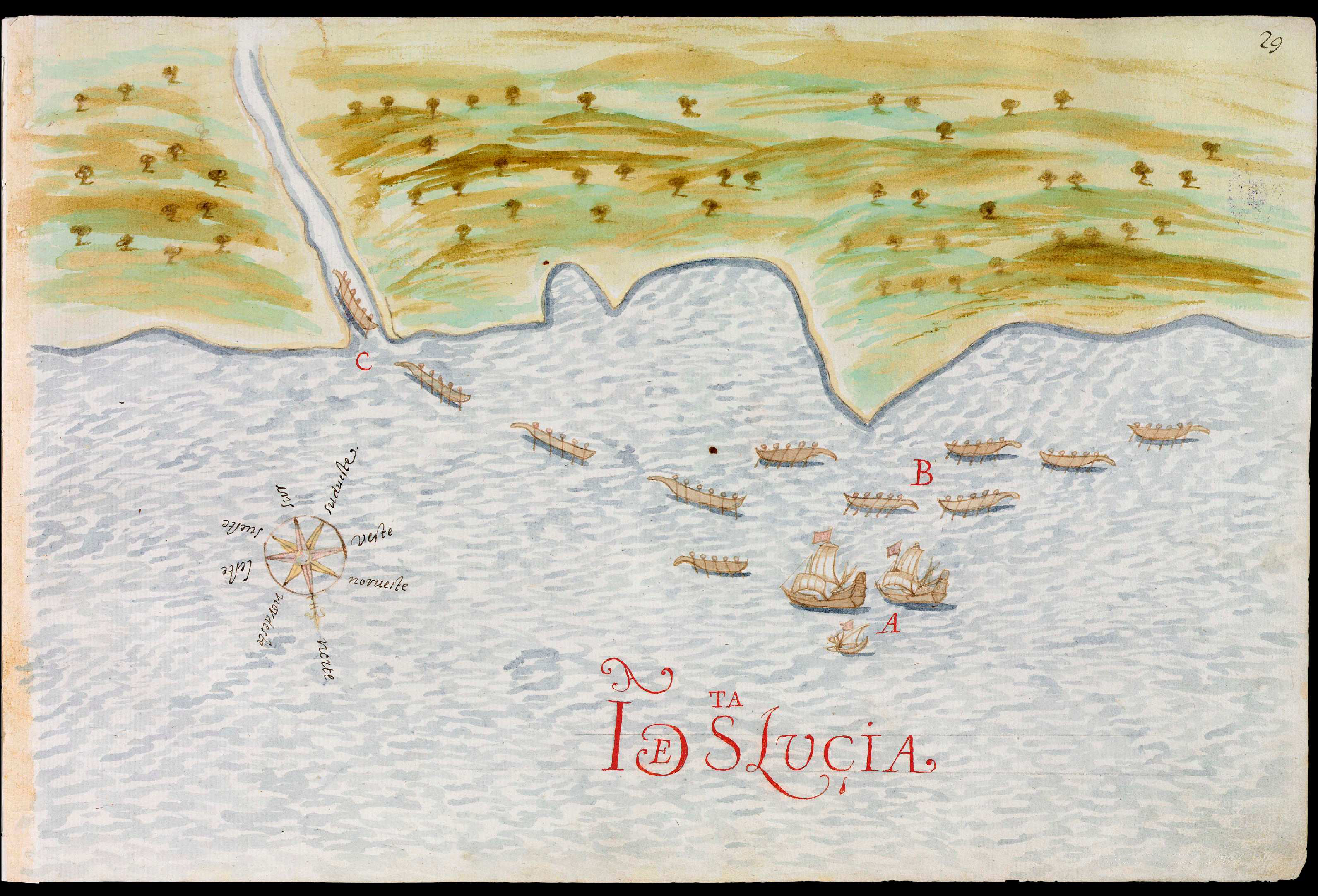 Scene of the Caribbean island of Santa Lucia. Page 29 of the Descripciones geográphicas e hydrográphicas de muchas tierras y mares del Norte y Sur en las Indias, en especial del descubrimiento del Reino de la California (Geographic and hydrographic descriptions of many northern and southern lands and seas in the Indies, specifically the discovery of the kingdom of California), written by captain Nicolás de Cardona after his expedition of 1614.